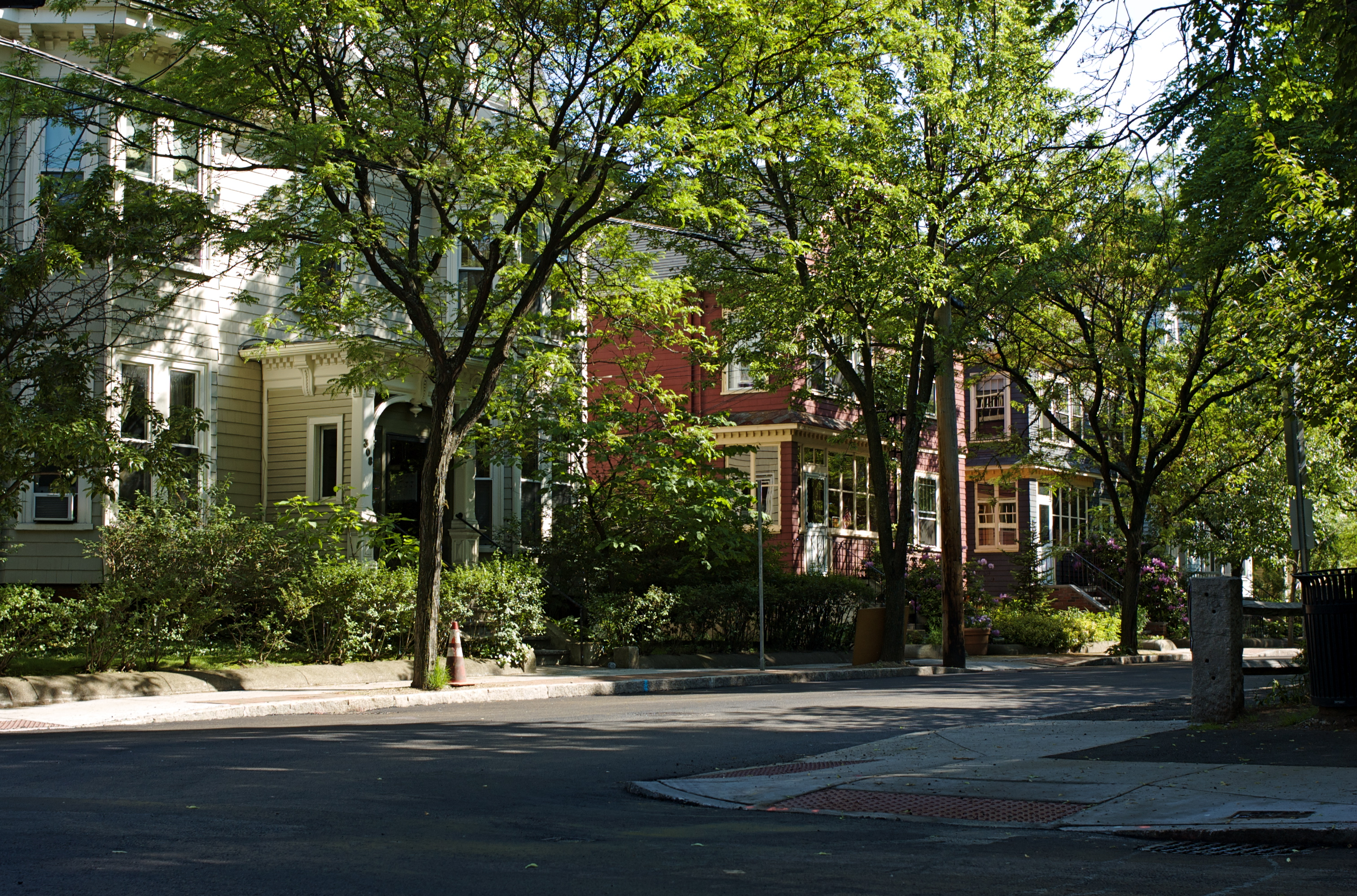 Houses along Brookline Street in Hastings Square Historic District in Cambridge, Massachusetts, a National Register of Historic Places site.